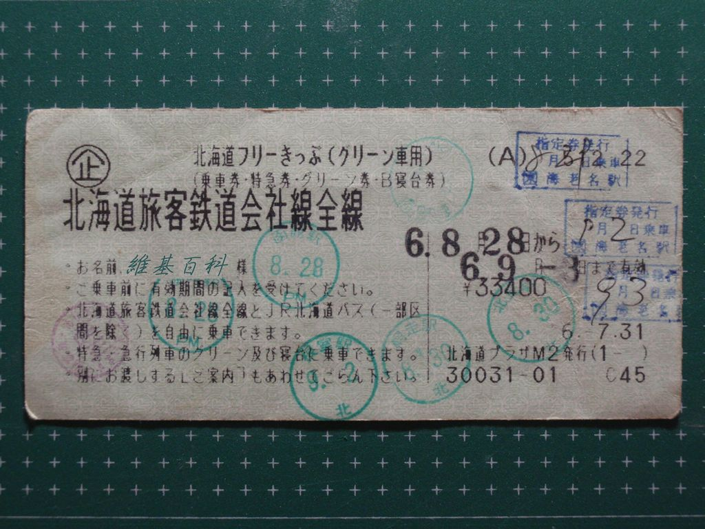 Hokkaido Free Ticket for Green Cars, ca. 1994